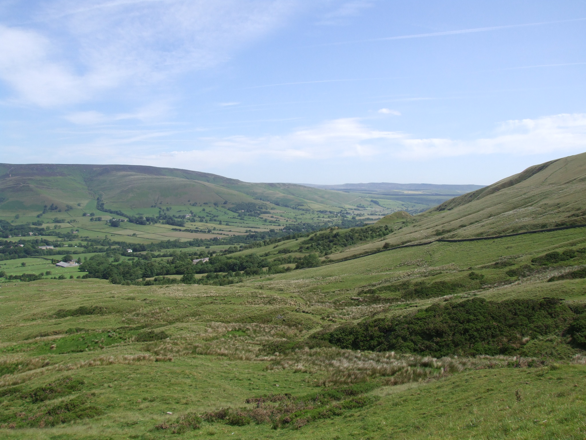 Edale is a small Derbyshire village and Civil parish in the Peak District of England. The Parish of Edale, area 2,844.8ha is in the Borough of High Peak. A view down the vale from the top of Harden Clough, on the road leading from Rushup Edge to Barber Booth in the Vale. To the left isKinder Scout To the right is Mam Tor. - Google Maps - Google Earth